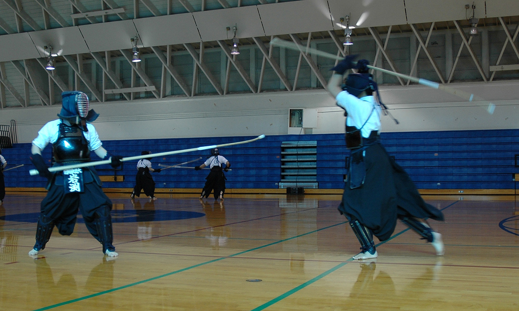 Bogu demonstation by students from the International Budo University in Japan. Furikaeshi strike in mid-strike from here, the attacker can strike either the men (head), kote (hands) or sune (shins).